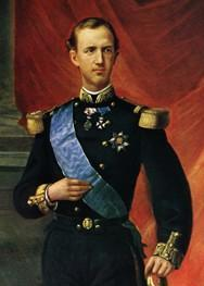 king of Hellenes George I. in 1864